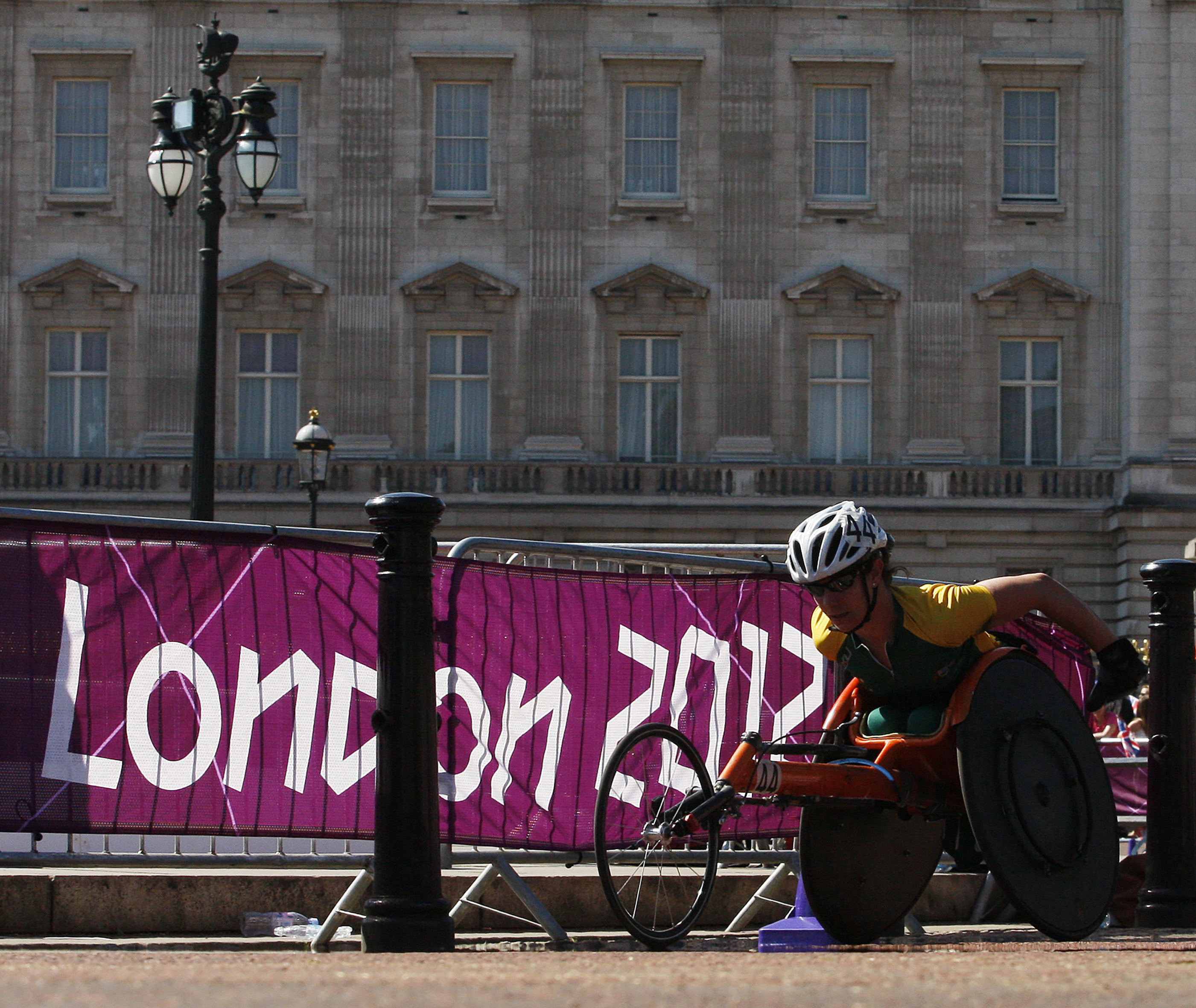 Photograph of Australian Paralympic team member Christie Dawes at the 2012 Summer Paralympic Games in London